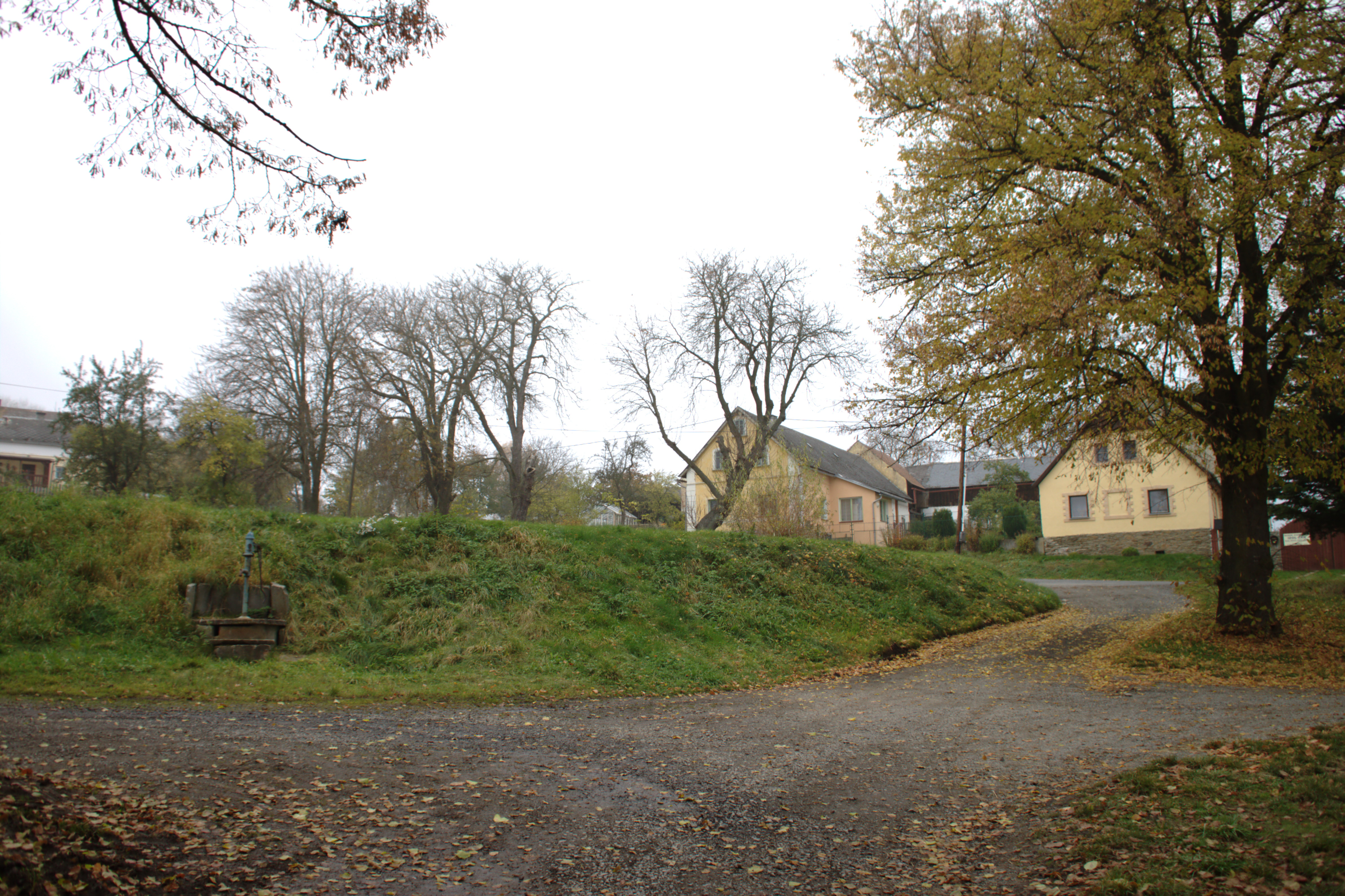 A common in the village of Služetín, Plzeň Region, CZ